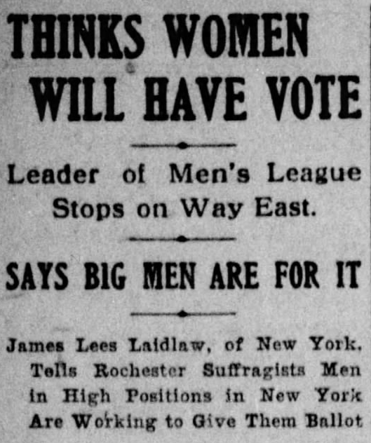 Thinks Women Will Have Vote, James Lees Laidlaw, Democrat and Chronicle Rochester, New York 22 May 1915, Sat • Page 14